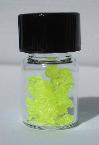 Uranyl nitrate